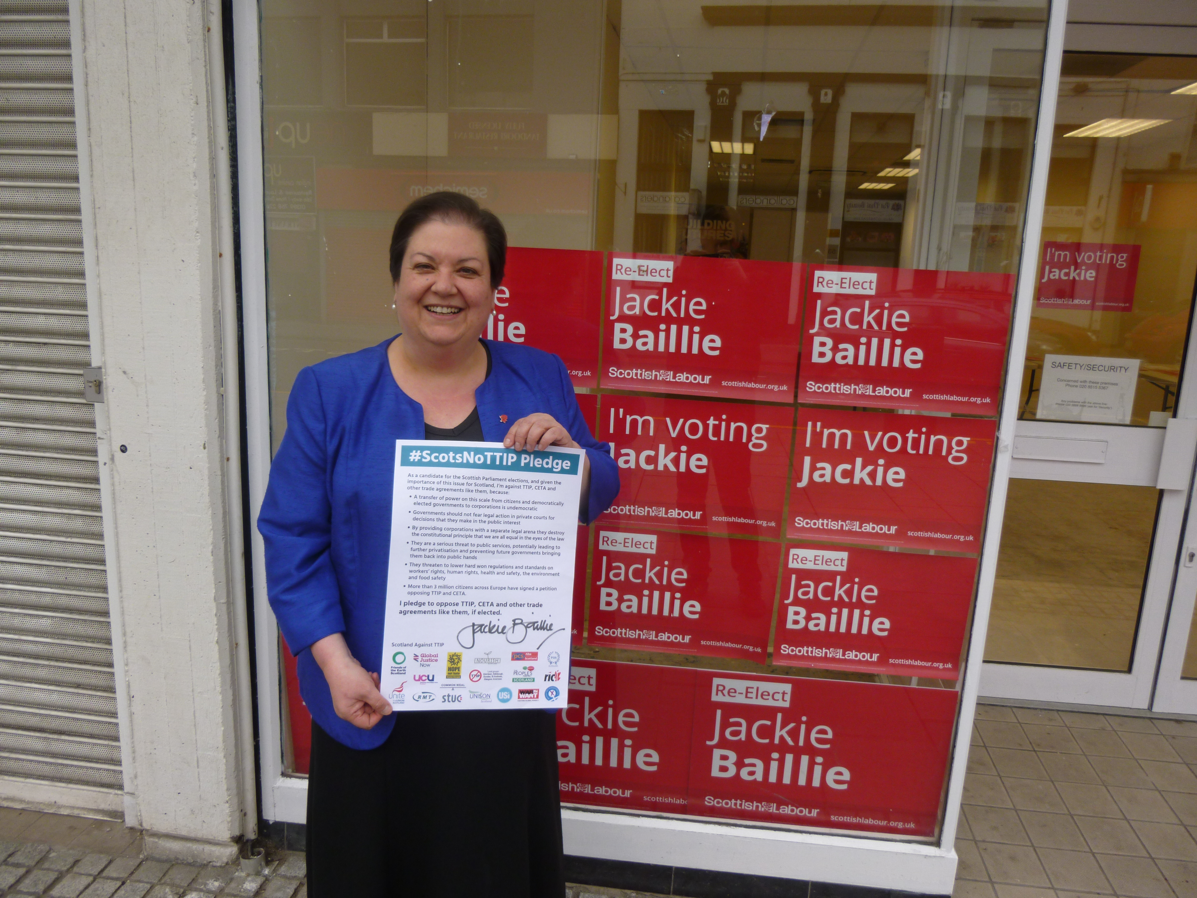 MSP candidate for Dunbarton signs the #ScotsNoTTIP pledge